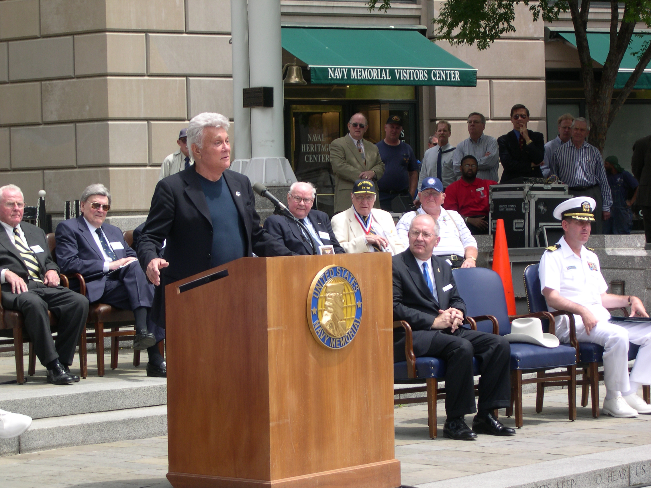 Academy Award nominated actor Tony Curtis speaks before a crowd assembled to commemorate the 62nd anniversary of the Battle of Midway at the Navy Memorial in Washington, D.C. More than 300 veterans, family members and other visitors honored the sacrifices and efforts of U.S. and Allied forces at Midway. The Battle of Midway was the turning point for the war in the Pacific. The commemoration was one in a week-long series that culminated in the dedication of the World War II Memorial on the National Mall.